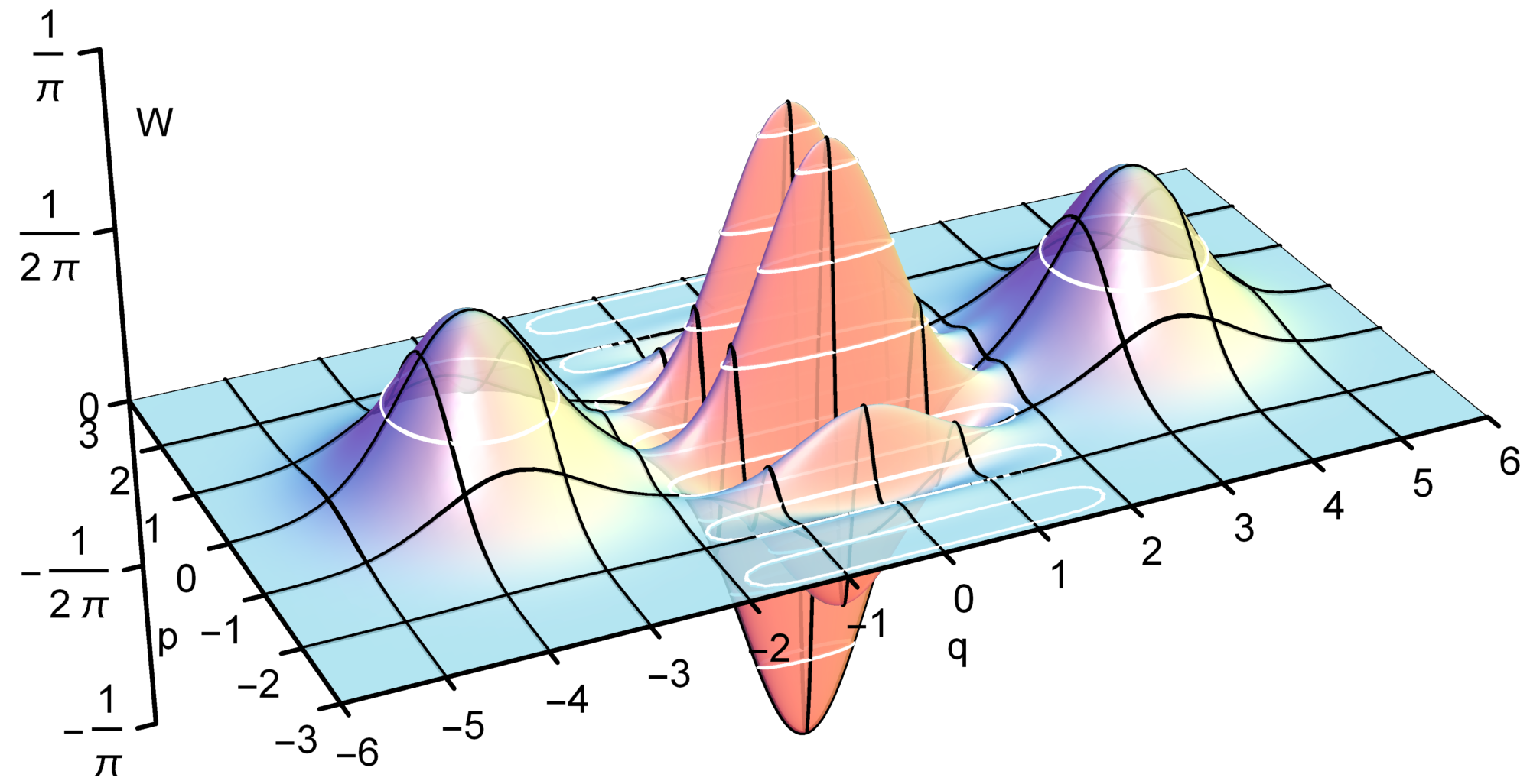 Wigner function of an odd cat state with amplitude α=2.5.